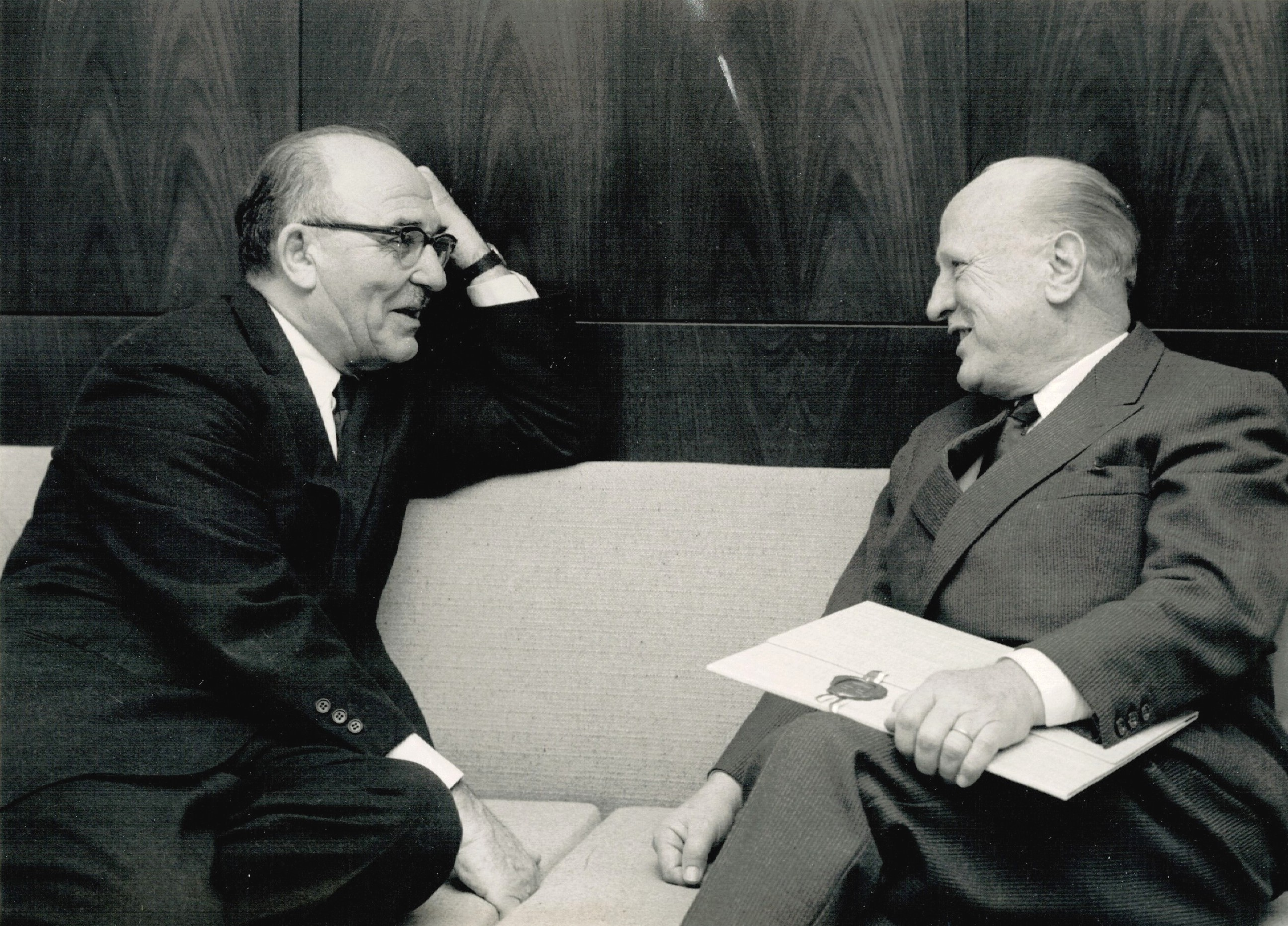 Israeli Prime Minister Levi Eshkol meeting with the Swiss ambassador to Israel Pierre François Brügger at the Prime Minister's office, December 9, '63.